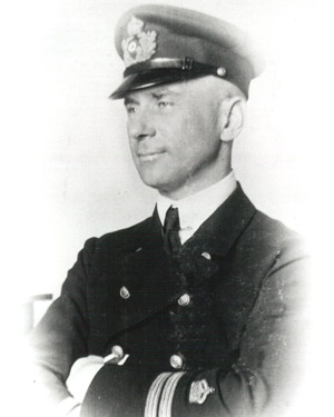 Kapitänleutnant Ludwig Bockholt